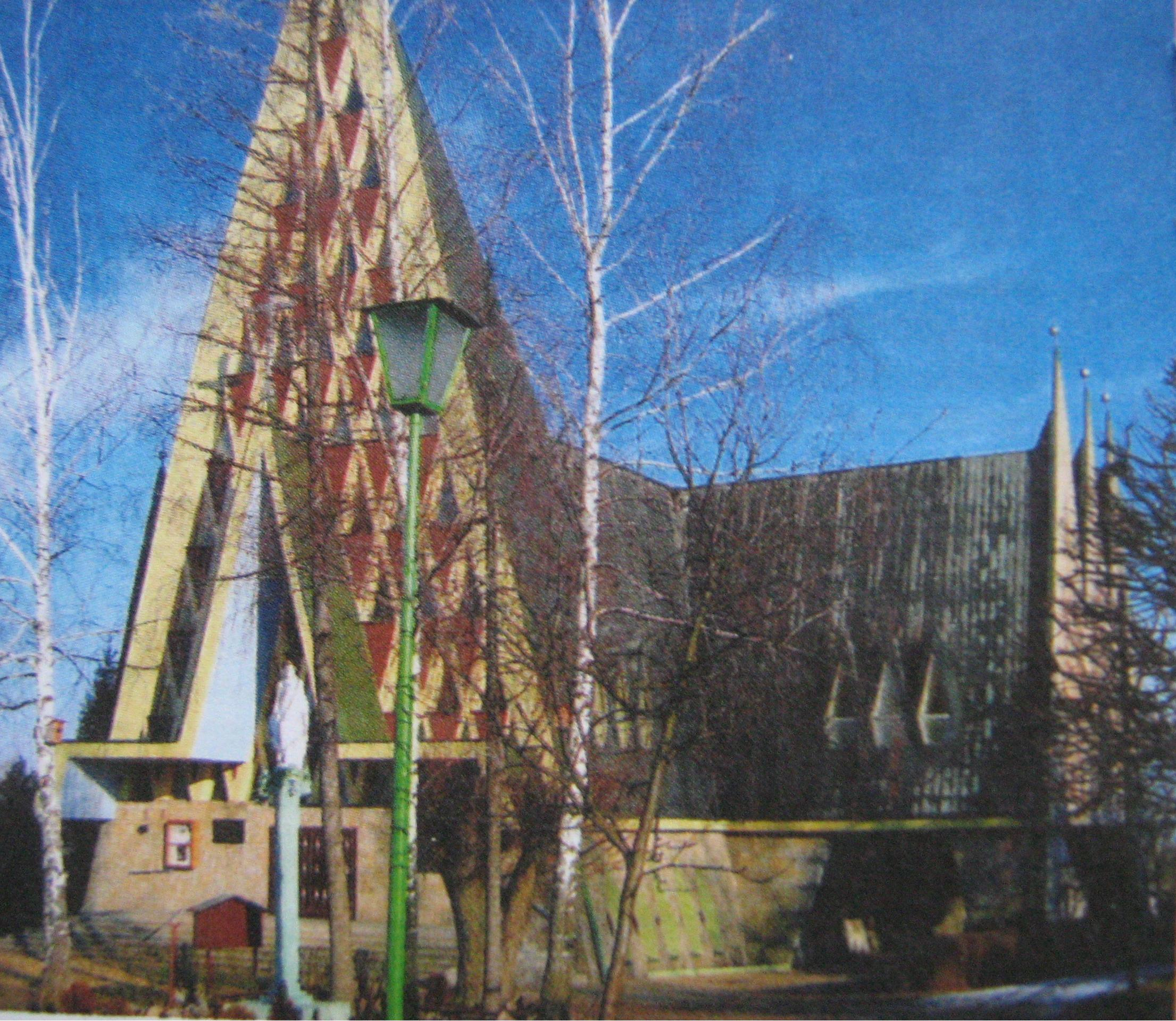 Polish Catholic Procathedral Church in Kotłów